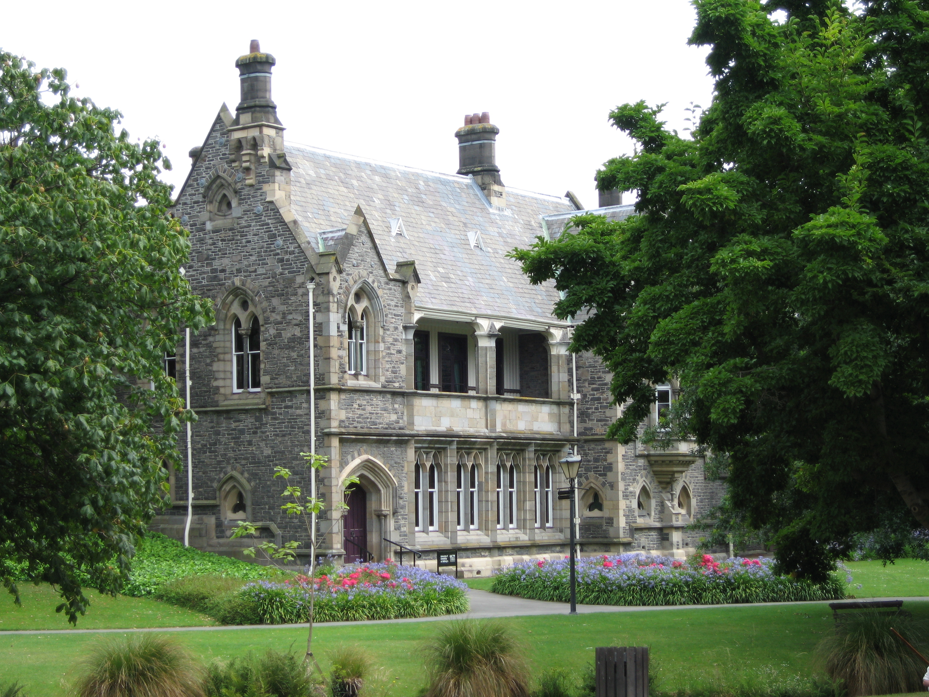 Canterbury Provincial Council Buildings, Christchurch. New Zealand Historic Places Trust Register number: 45.